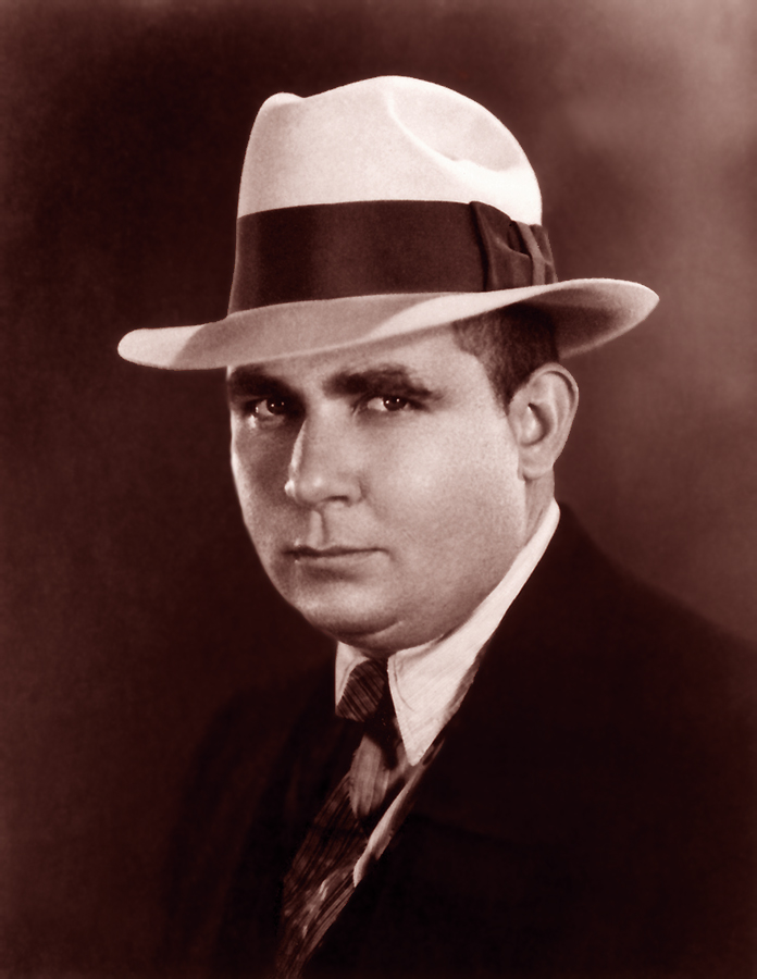 This is a very well-known photograph of Robert E. Howard taken in 1934. According to his then-girlfriend Novalyne Price, he hated wearing a suit, tie, and hat, yet he went to a studio and had several photographs taken because she liked it when he dressed up. It's ironic that a photo he may have admired least has become the Definitive Image of the author. This image is in the public domain, and may be found on countless Robert E. Howard websites, fan pages or book sleeves.